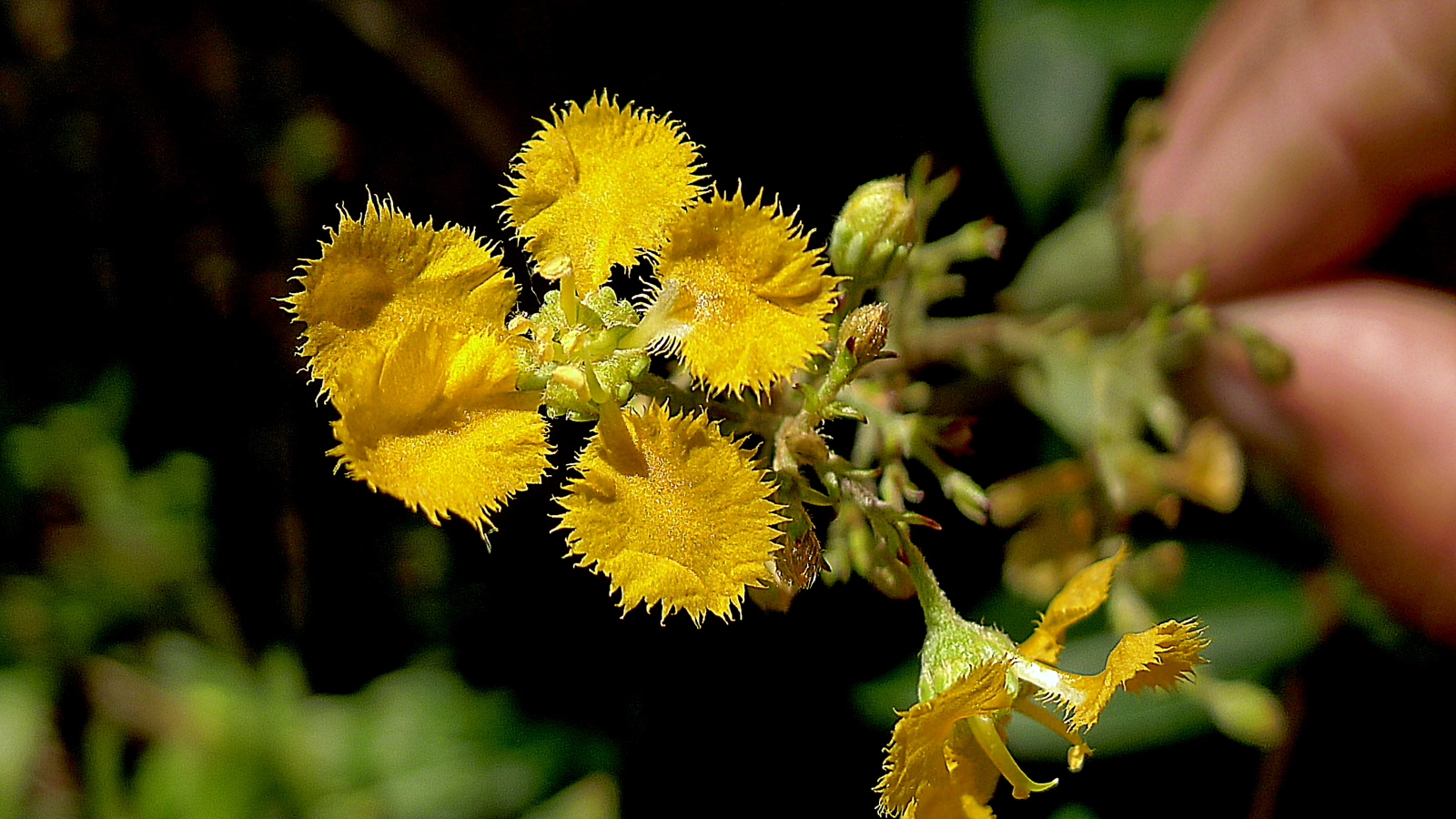 Janusia anisandra (A.Juss.) Griseb., Malpighiaceae, Atlantic forest, northeastern Bahia, Brazil Vine. Popovkin 1246, 1247 (HUEFS).